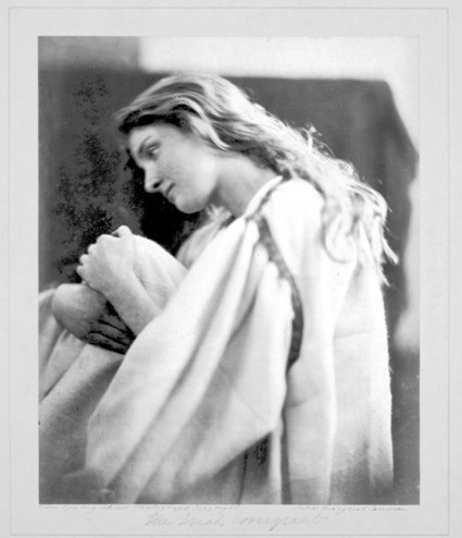 Portrait of Mary, Lady Cotton (née Ryan), taken by Julia Margaret Cameron.